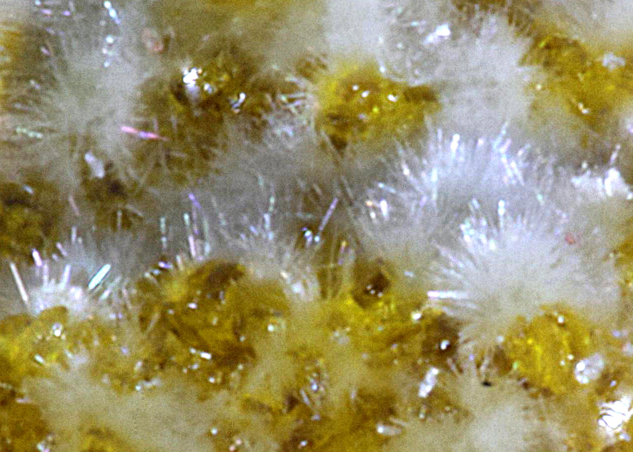 Paragenisis of studtite (white, fine needles) with billietite (yellow crystals) from Menzenschwand, Germany (width: 3 mm)